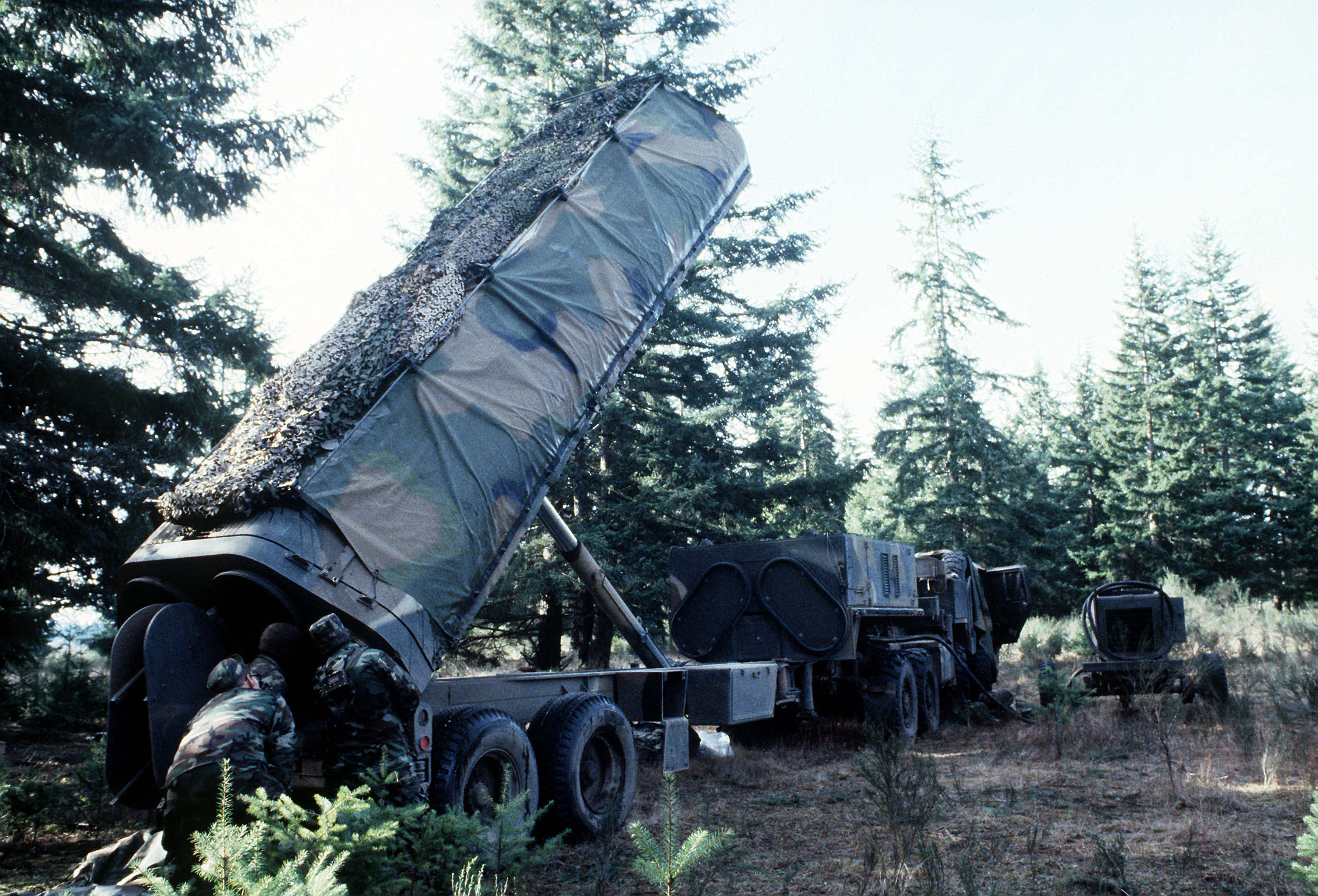 A launching unit for BGM-109G Gryphon missiles